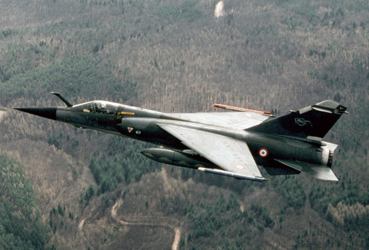 A French Dassault Mirage F.1CR aircraft from Escadron de Reconnaissance 2/33 Savoie in flight. This aircraft was part of a larger, 15-aircraft formation taking part in an aerial review on 6 April 1987 for departing U.S. Air Force General Charles L. Donnelly Jr., commander in chief, U.S. Air Force, Europe and commander, Allied Air Forces Central Europe.